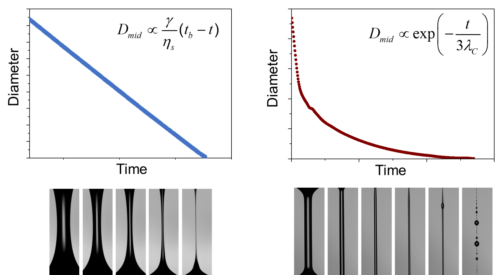 Profile, scaling law and filament images in capillary breakup